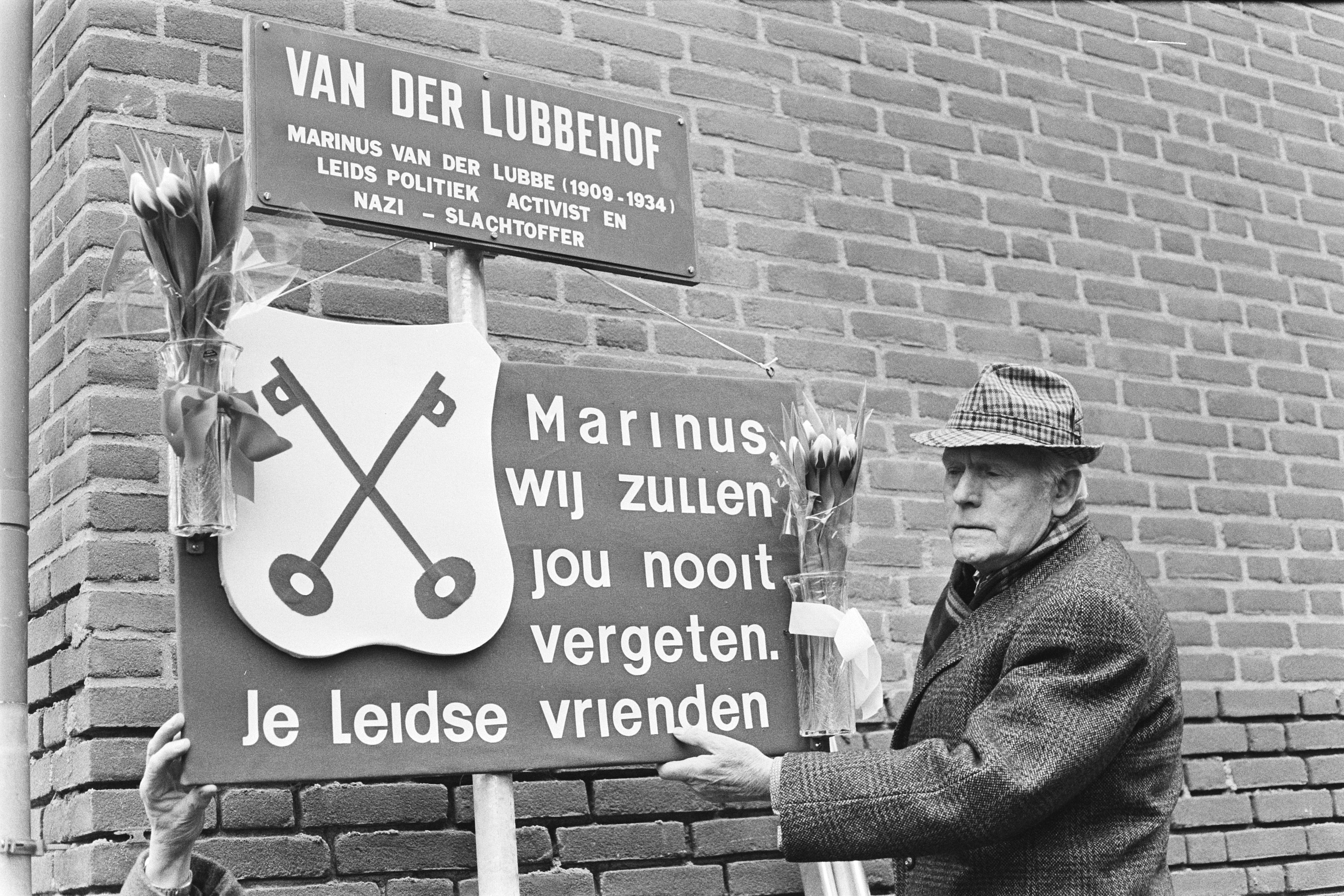 Unveiling of street sign "Marinus van der Lubbehof" in Leiden, 10 January 1984. Koos Vink, former roommate of Van der Lubbe, holds a sign saying: "Marinus, we will never forget you. Your Leiden friends".